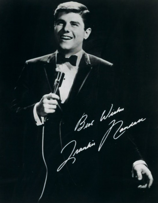 Publicity photo of singer Frankie Randall.